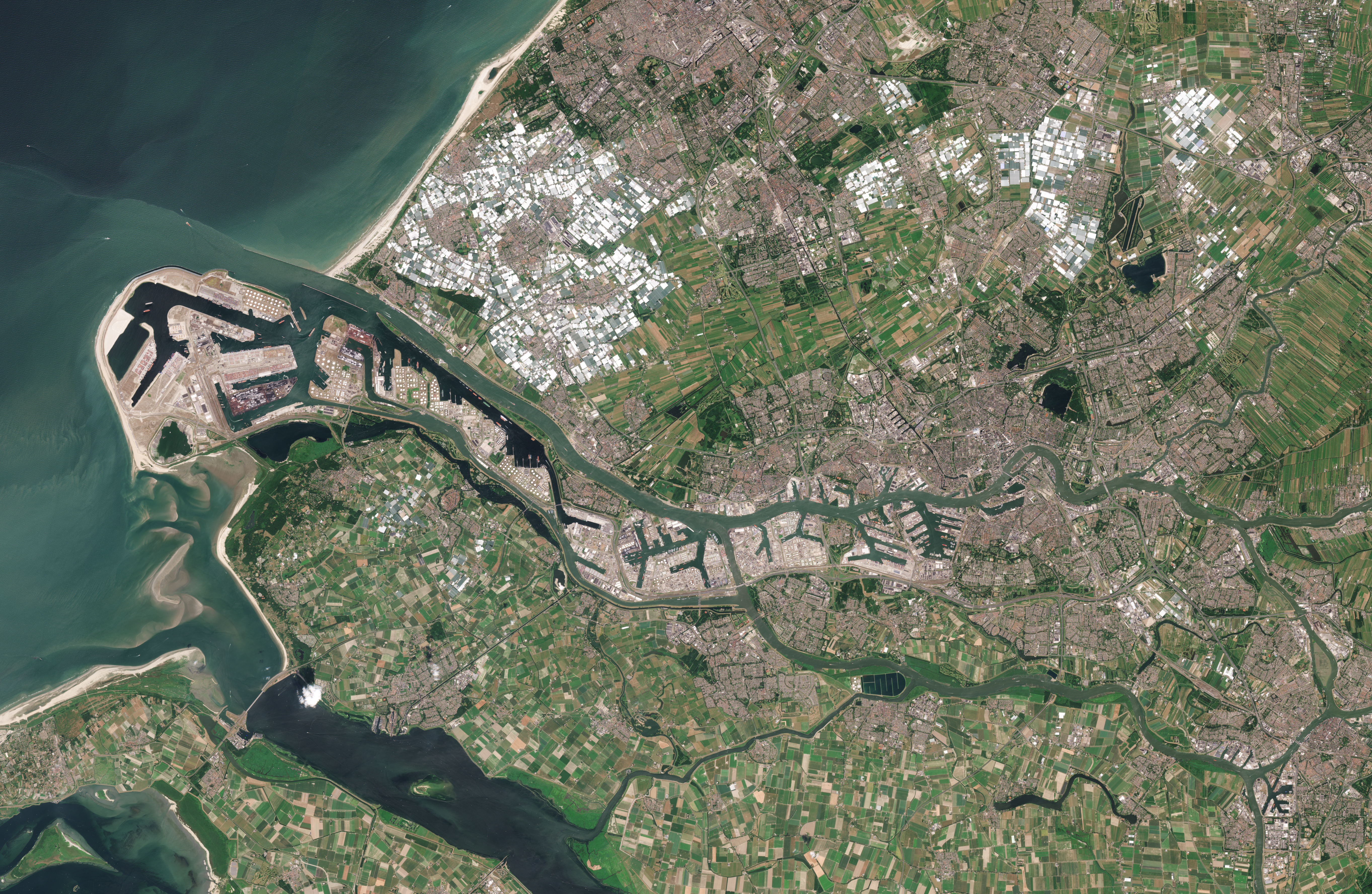 Date: 2018-06-30 Sensor: MSI on Sentinel-2A Resolution: 10m RGB Composites: True color, Band 4-3-2